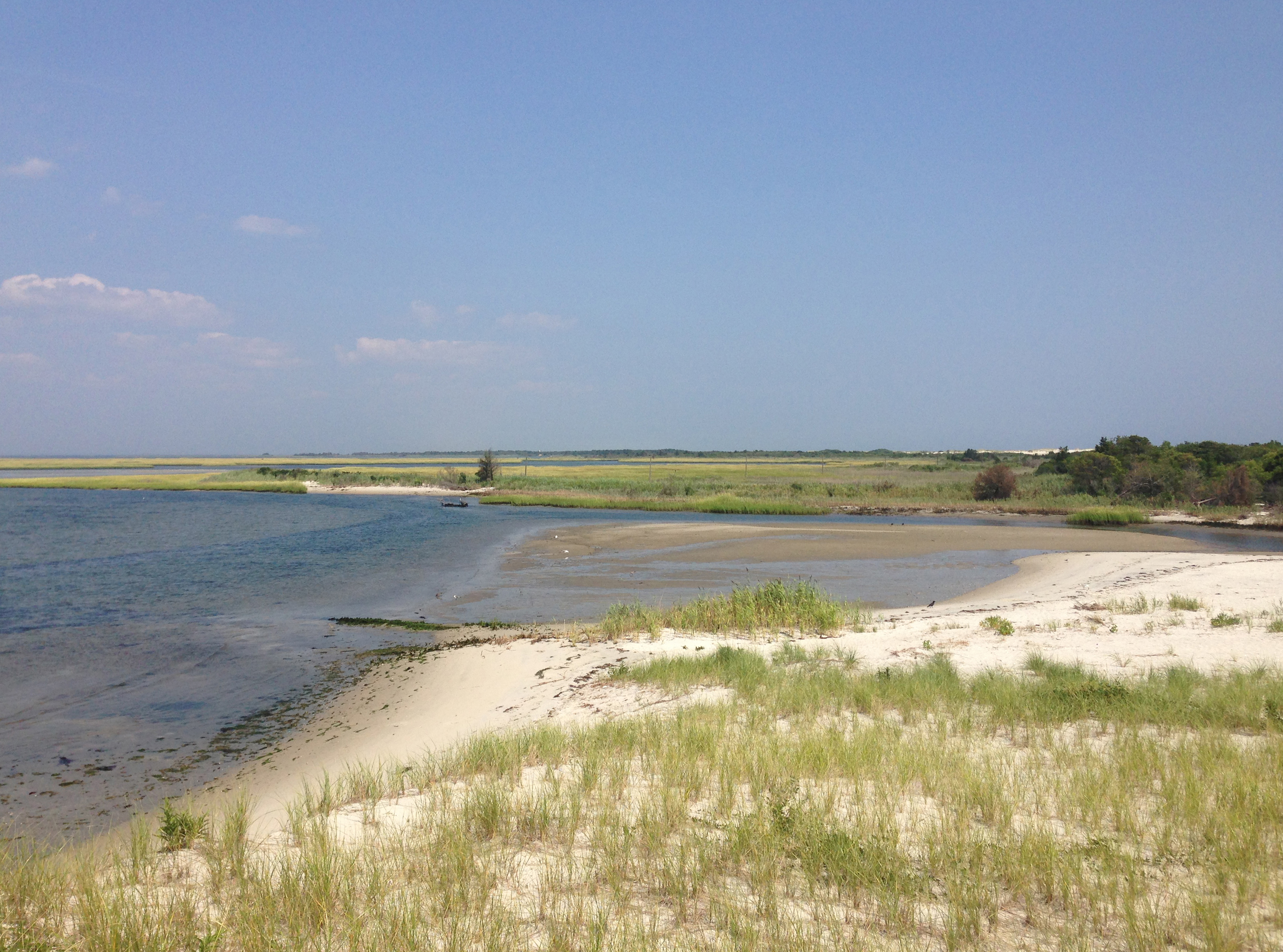 Wetlands along Barnegat Bay near the southern end of Island Beach State Park, New Jersey on August 21st 2013